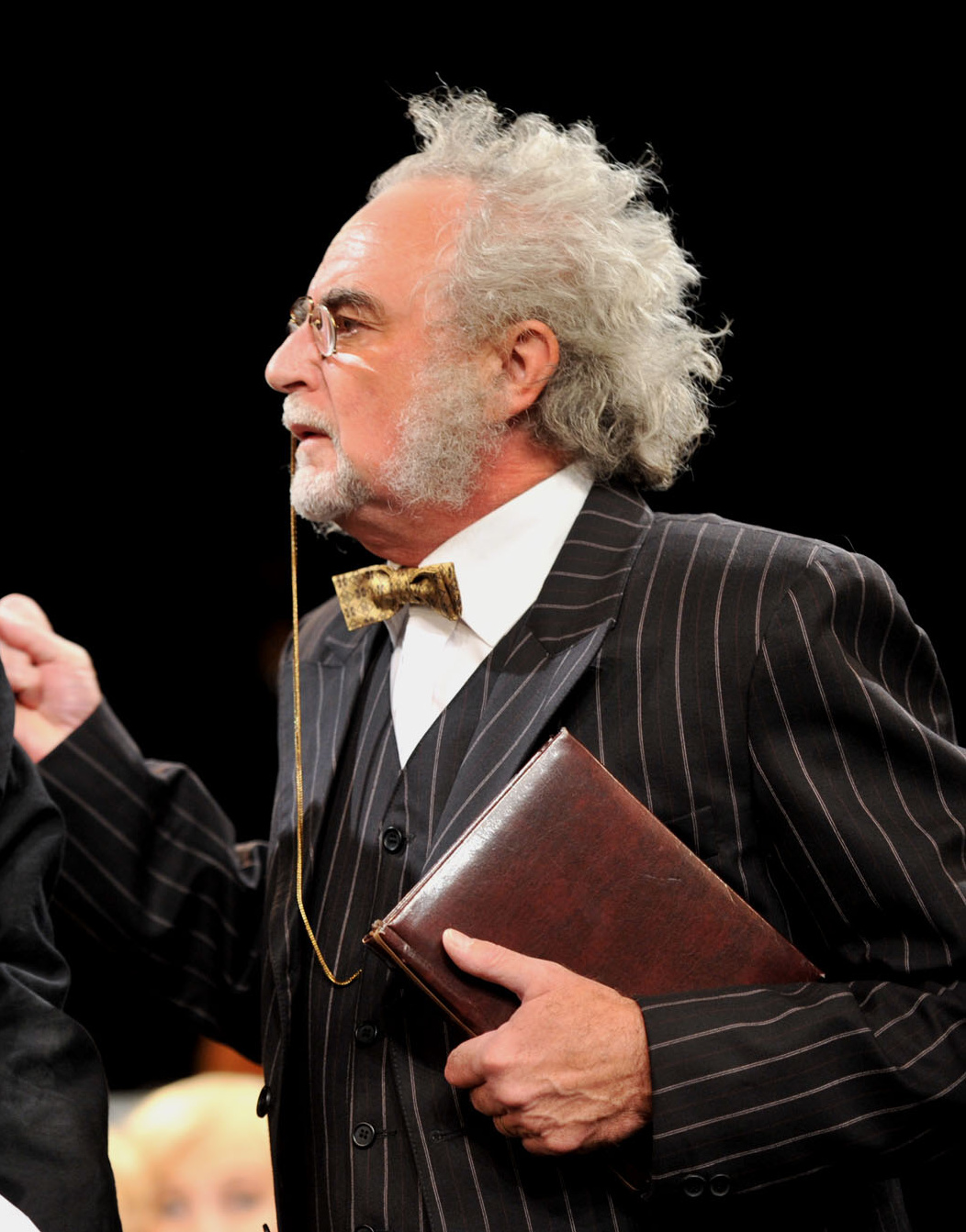 Czech actor of Městské divadlo Brno Karel Mišurec